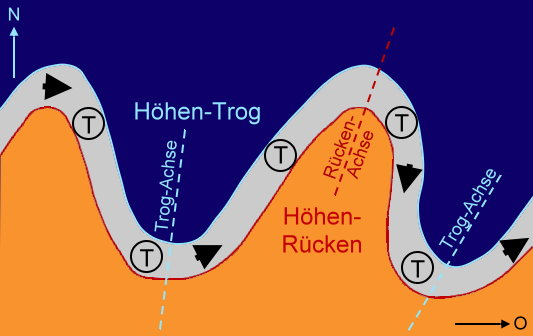 Rossby wave with trough and ridge.